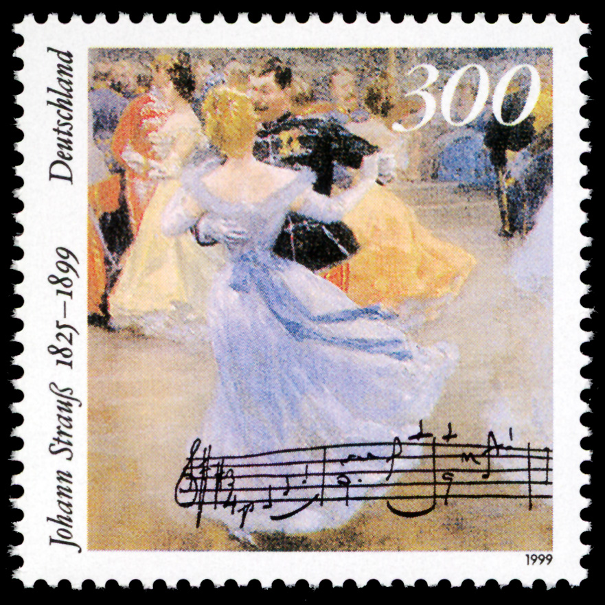 Stamp from Deutsche Post AG from 1999, 100th anniversary of the death of Johann Strauss II